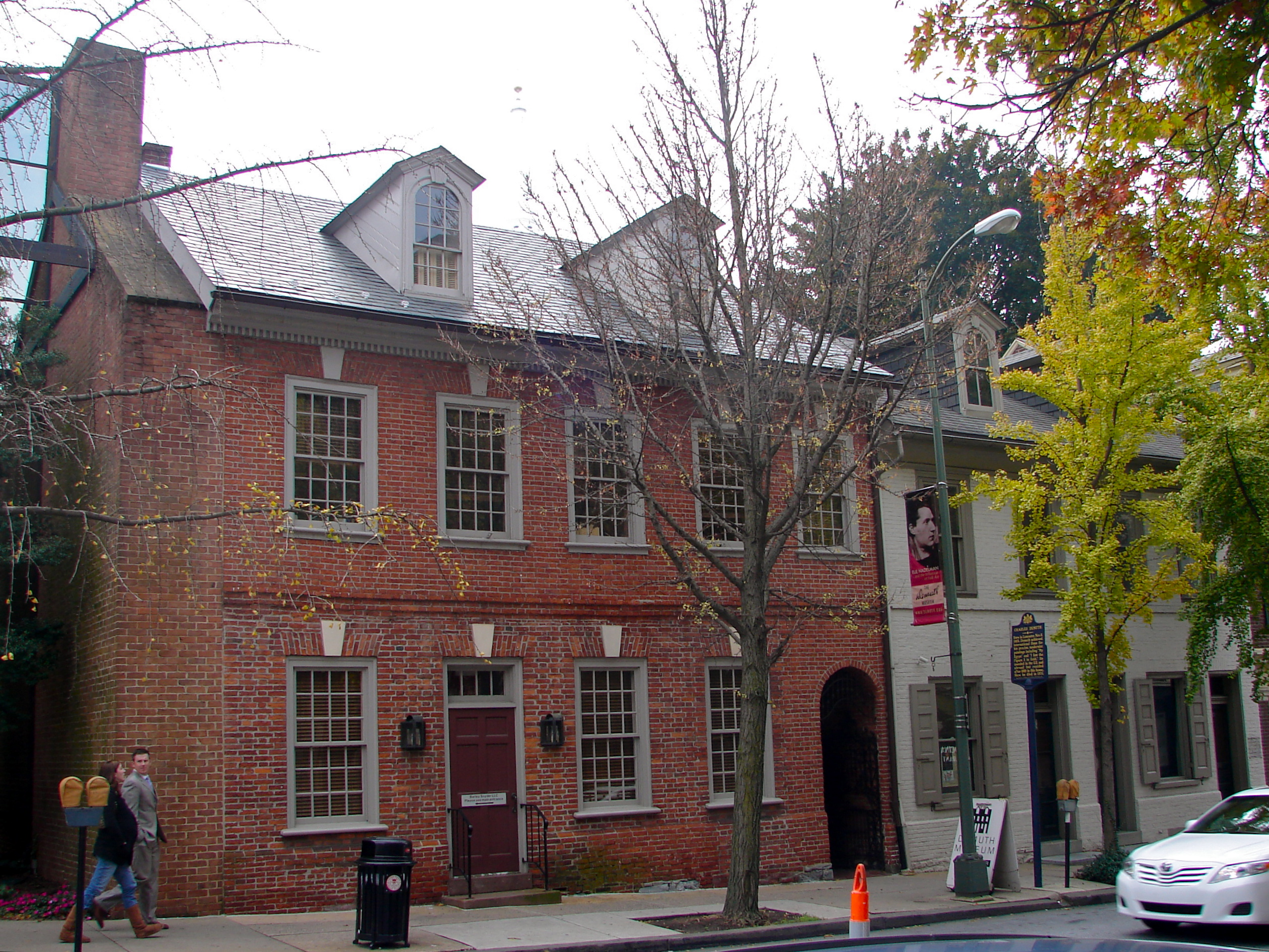 Last home of Charles Demuth, where he died. PHMC historical marker placed on Tuesday, November 08, 1983. At 118 E. King St., Lancaster, Pennsylvania. In the PHMC series on City, and Artists.